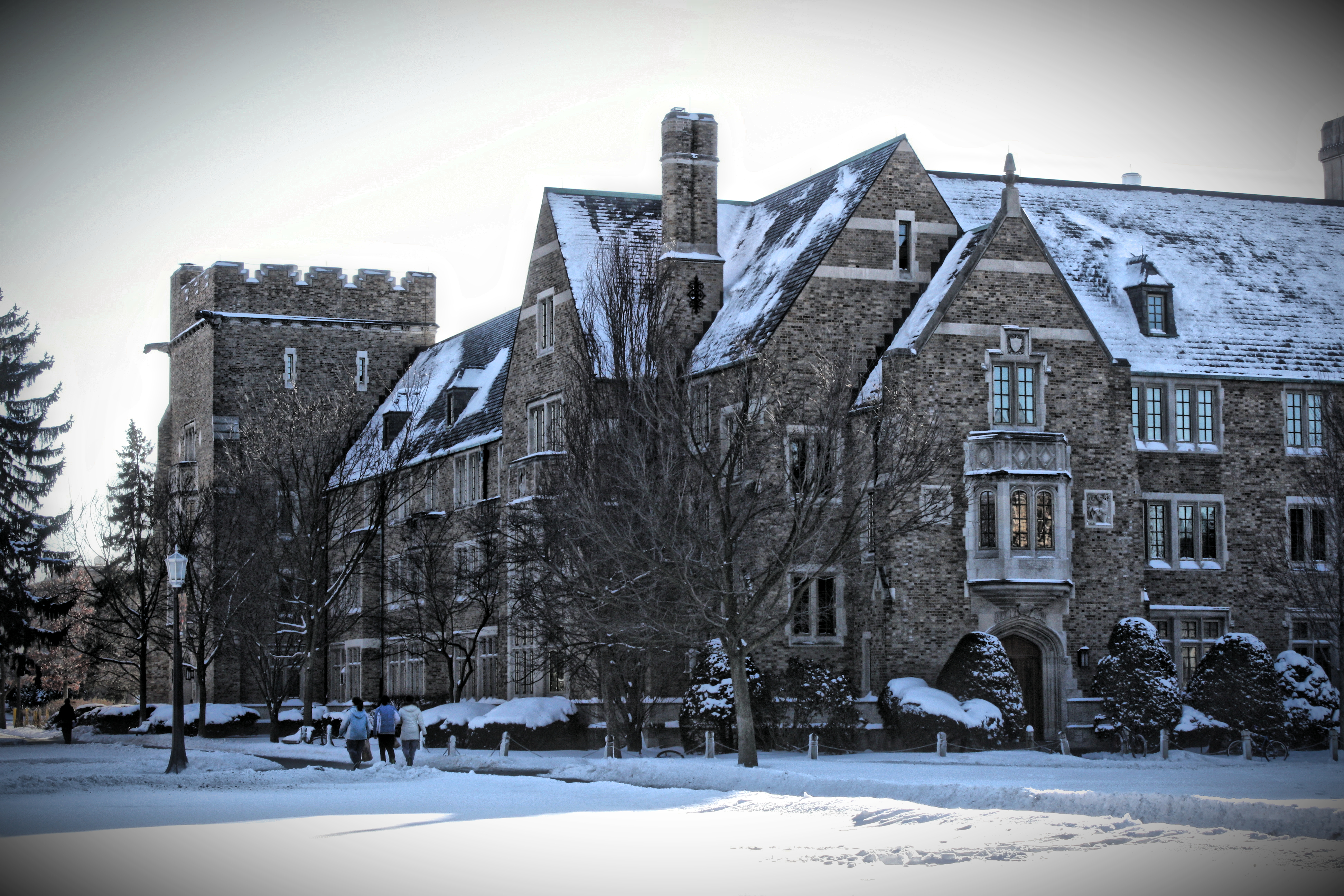 A view of Alumni Hall, which houses approximately 250 male undergraduate students.